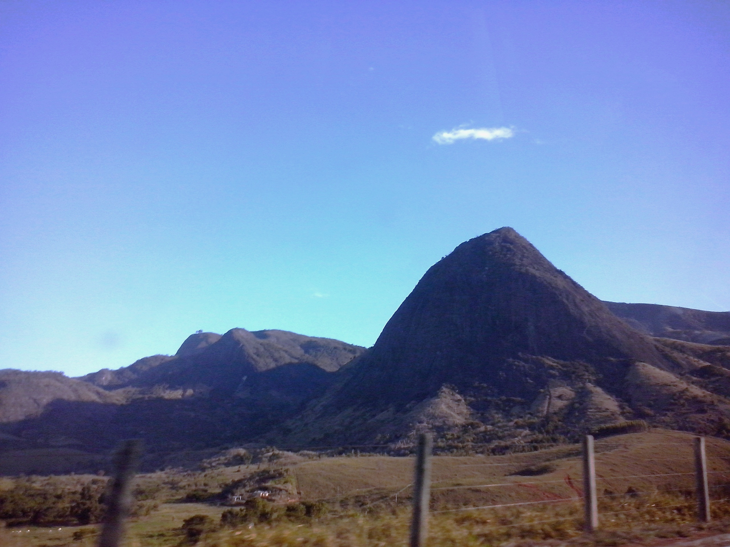 Hills and mountains in Baixo Guandu, Espírito Santo, Brazil.